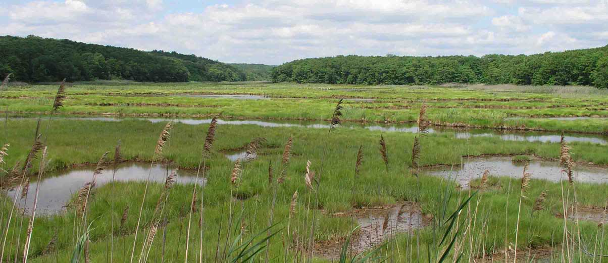 Marsh Bride Brook and Coastal Salt Marsh, East Lyme, Connecticut. Taken July 2003 1204 pixels X 521 pixels.